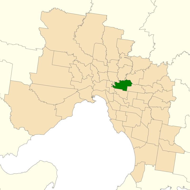 Location of the Victorian electoral district of Kew (dark green) in the Greater Melbourne area.